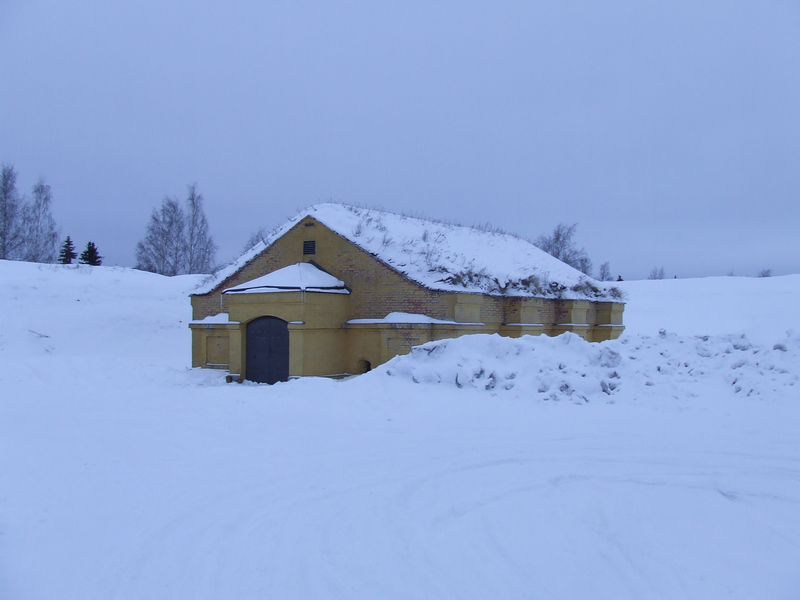 The old gunpowder warehouse in Hamina, Finland.